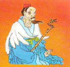 Chuang Zhu (Zhuangzi), 370-301 B.C.E.